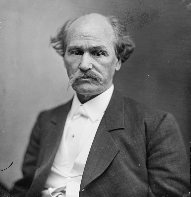 Portrait of Tennessee Governor Isham G. Harris (1818–1897).